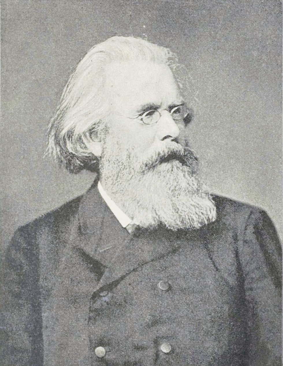 Depicted person: Albert Becker